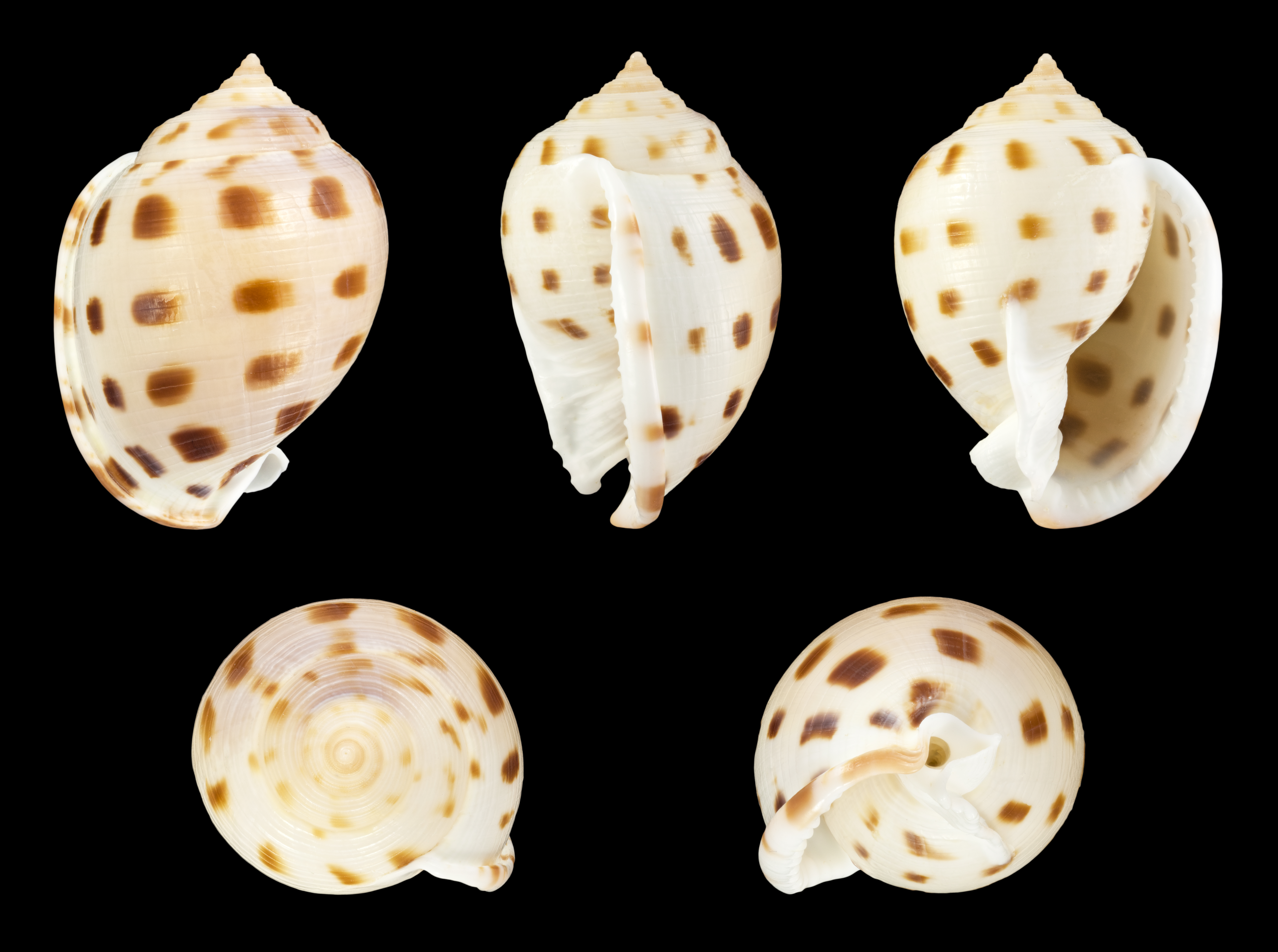 Globular Helmet; Length 4.5 cm; Originating from the Philippines; Shell of own collection, therefore not geocoded. Dorsal, lateral (right side), ventral, back, and front view.